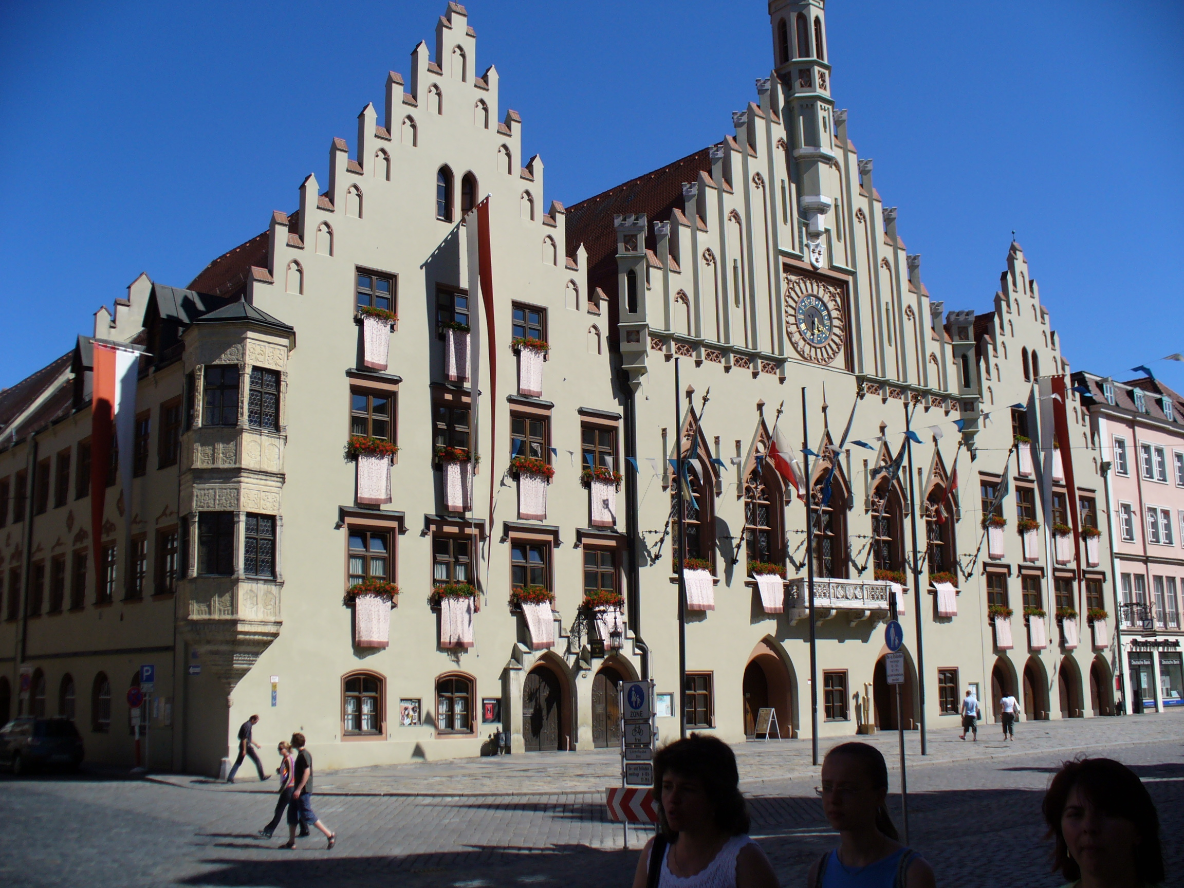 city hall in Landshut, Germany